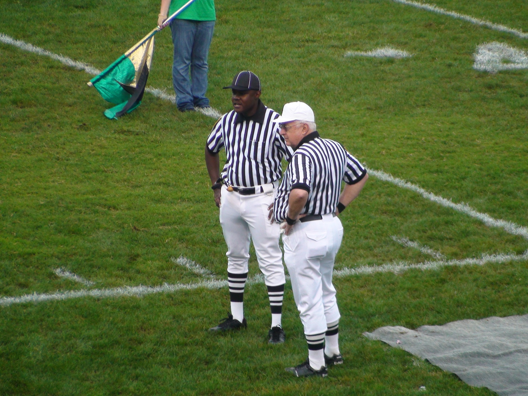 A pair of referees at the 2008 Battle for the King's Trophy football game, at Seneca Valley High School (SVHS) in Germantown, Montgomery County, Maryland, at 6:20 p.m. (EDT) on September 12, 2008. Photograph taken on September 12, 2008, in Germantown, Montgomery County, Maryland, with a Sony HDR-SR11 camcorder, by Illegitimate Barrister.